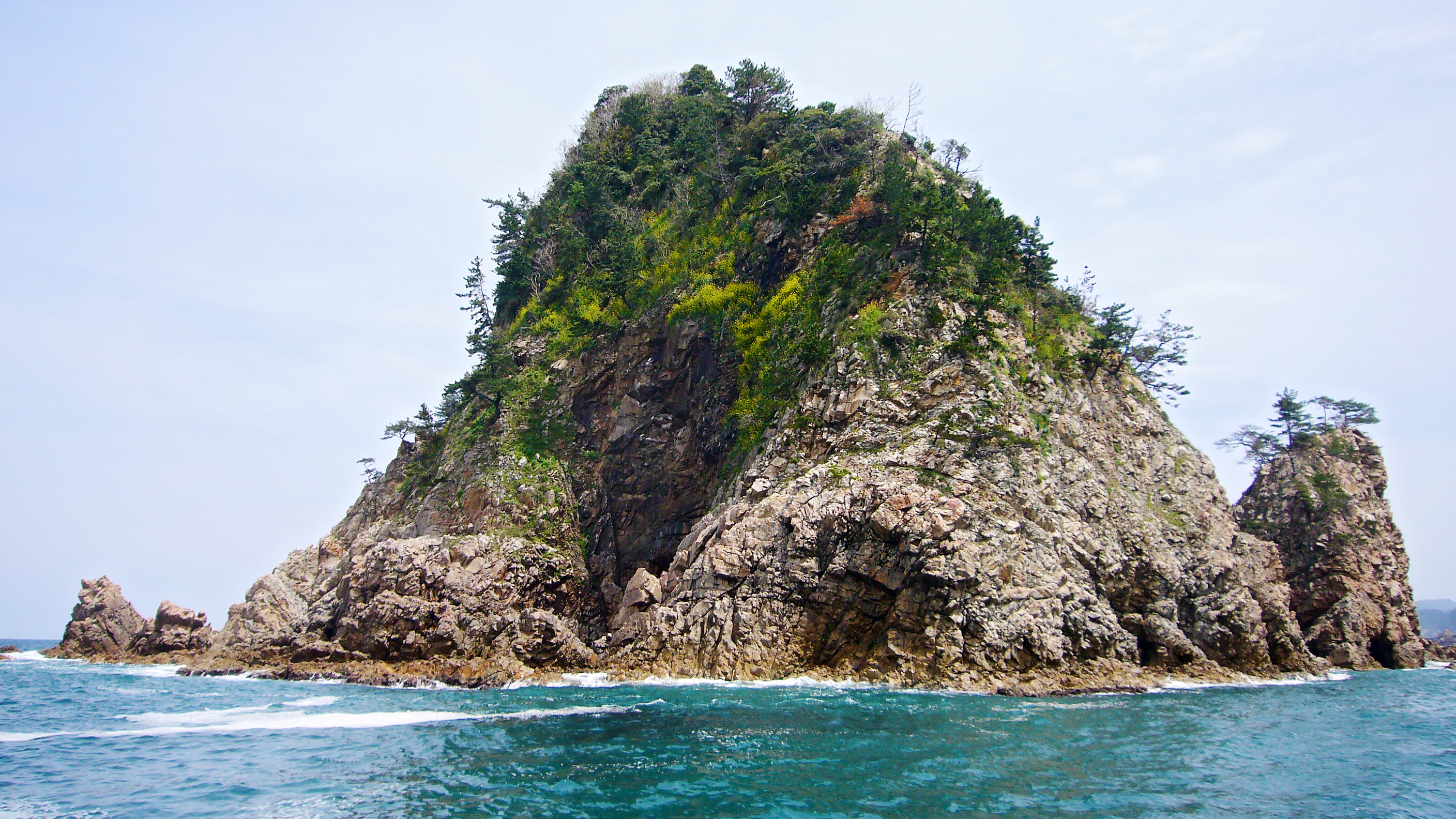 Uradome Coast in Iwami, Tottori prefecture, Japan